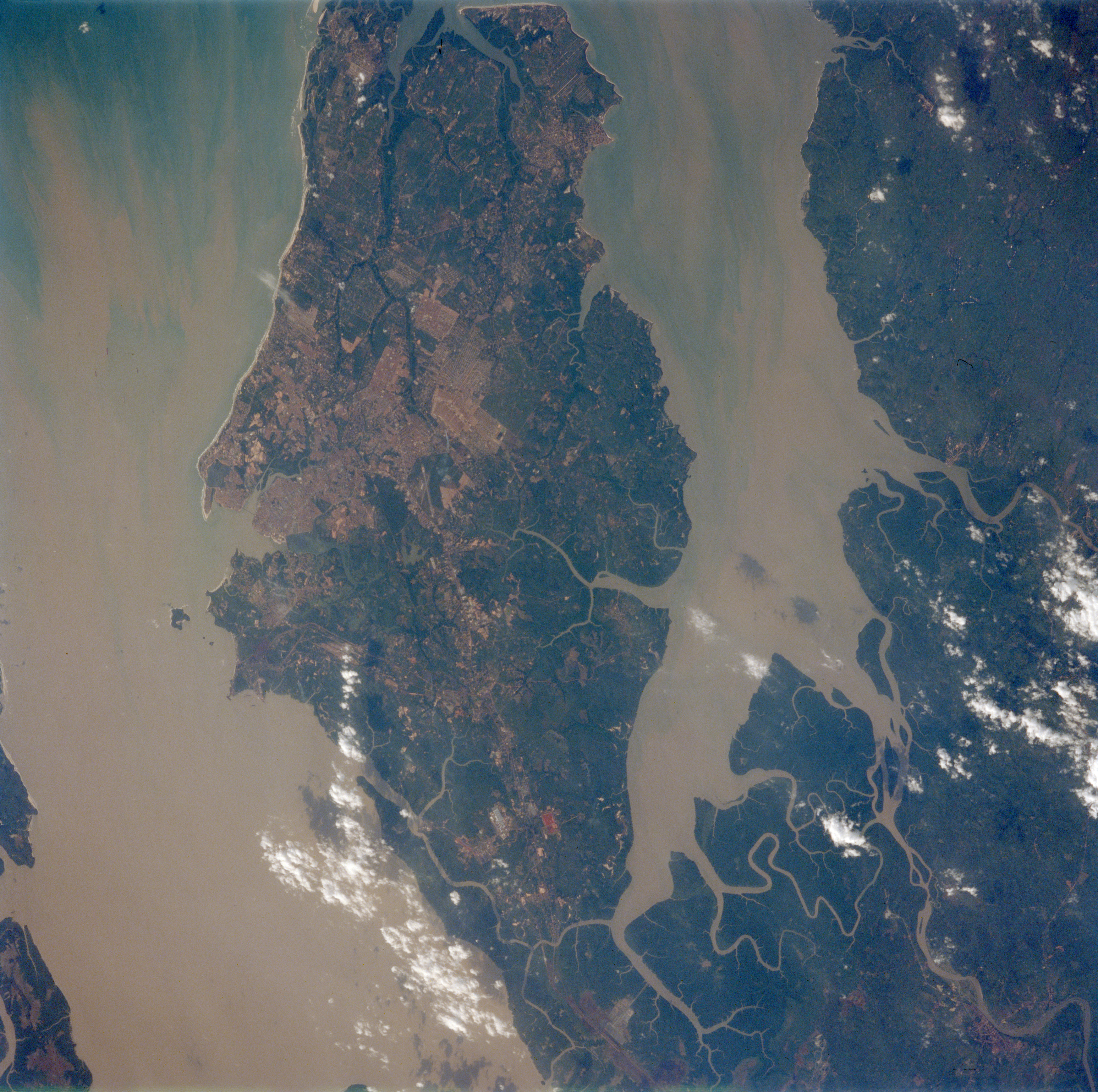 Satellite image of Island São Luís, Maranhão, Brazil.